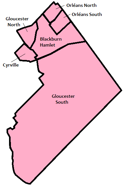 Map of Gloucester, Ontario's ward map used in 1994 and 1997